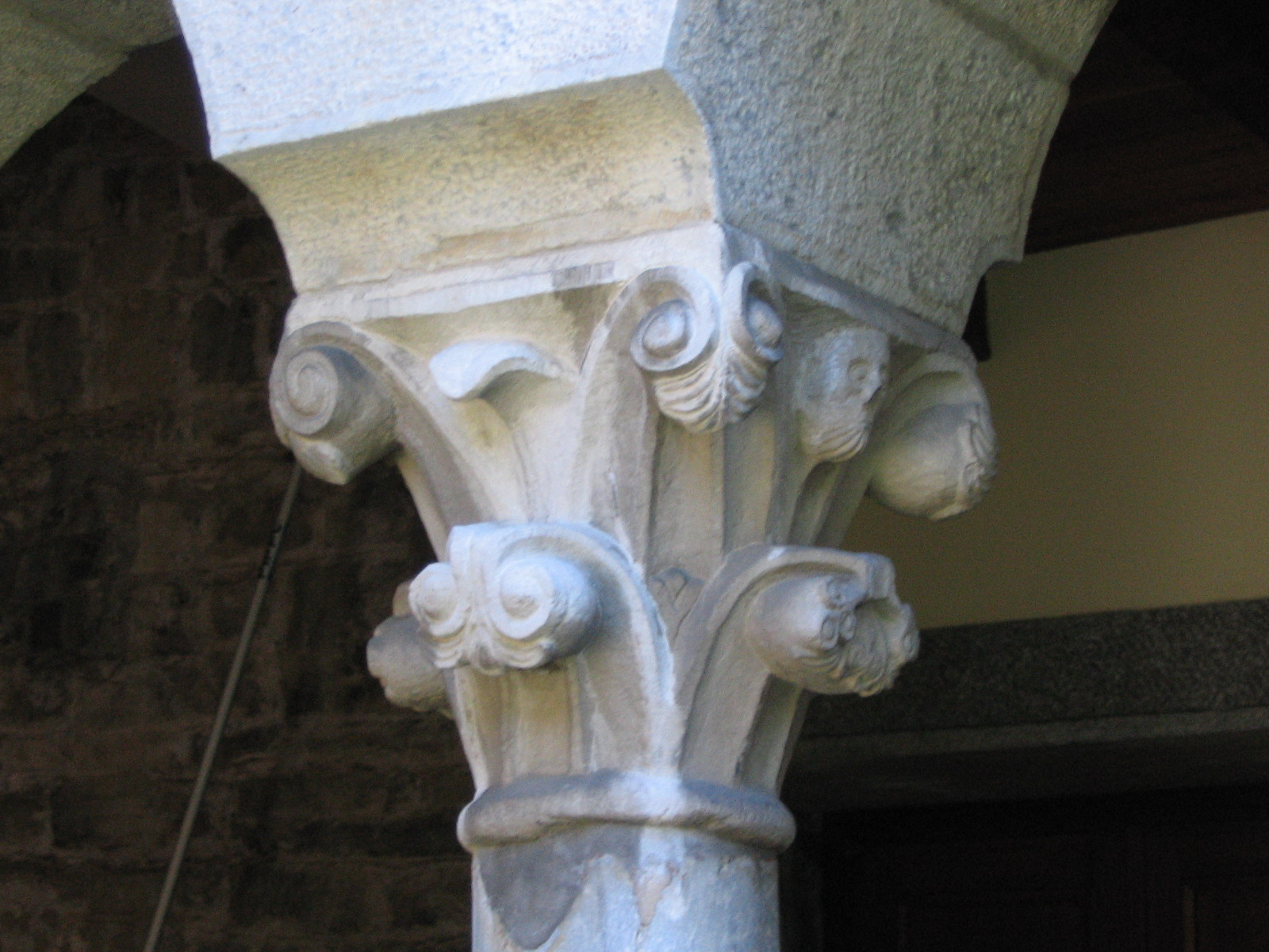 Priorato di Piona: detail of a capital in the cloister. Picture by: Giorces.